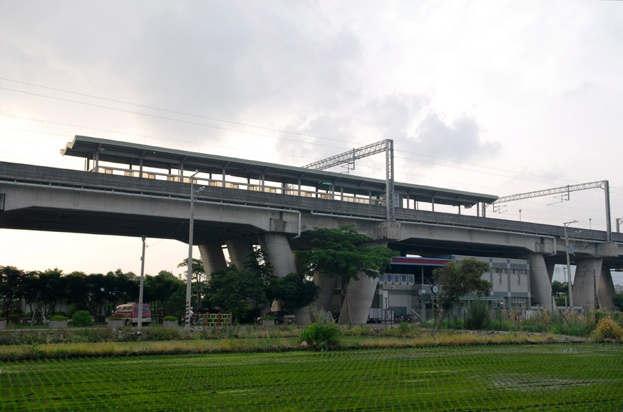 TaiAn Station is a local train station of TaiChung Line, part of Taiwan's Western main rail line. It's located within the boundary of HouLi Township, TaiChung County. The main building is positioned under the elevated rail lines with platforms above.